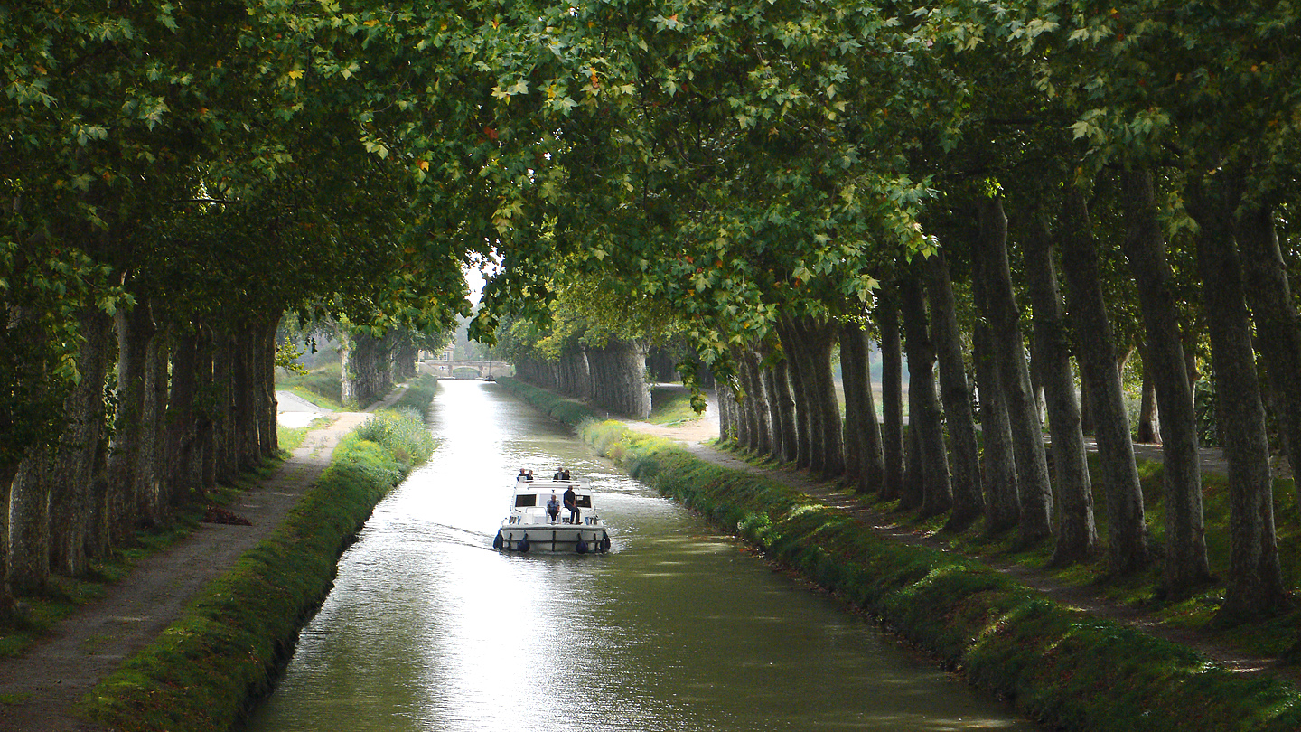 Canal du Midi in southern France